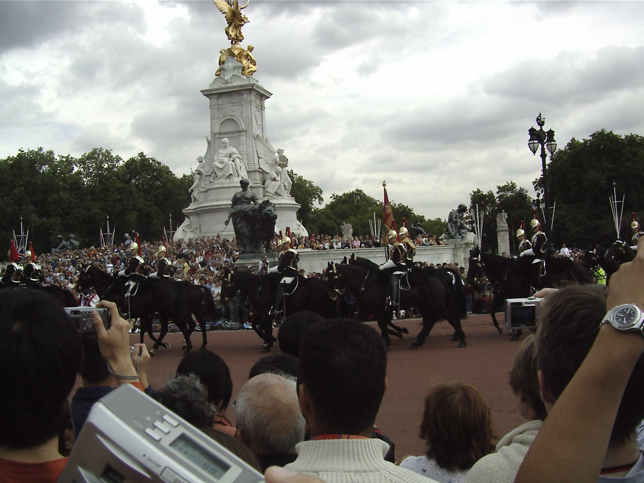 The Old Guard formed by the Blues and Royals passing Buckingham Palace.